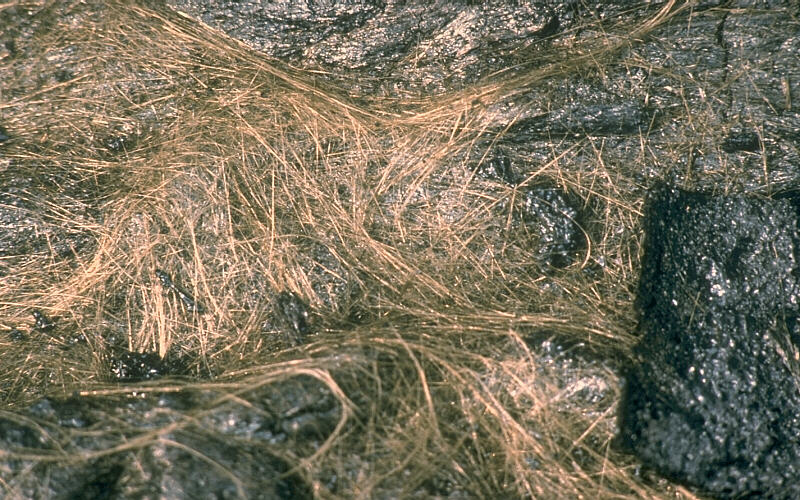 Hundreds of strands of Pele's hair intertwined on the surface of a pahoehoe flow at Kilauea Volcano, Hawai`i. The glass strands were erupted from Mauna Ulu, a shield that formed on the east rift of Kilauea between 1969 and 1974.